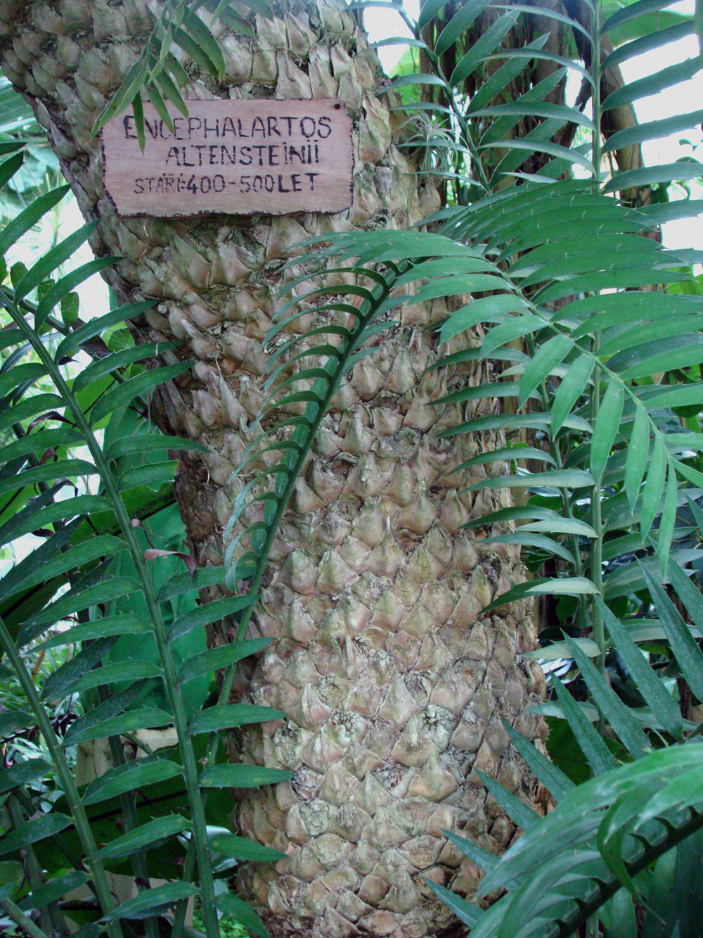 The oldest European cycad in Lednice Greenhouse, Czech Republic.